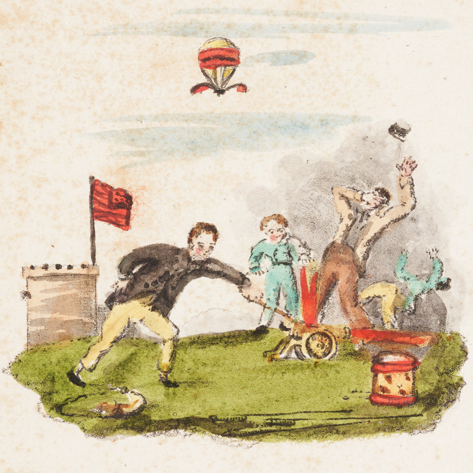 Illustration to verse 4 of the children's poem Old Santeclaus with Much Delight